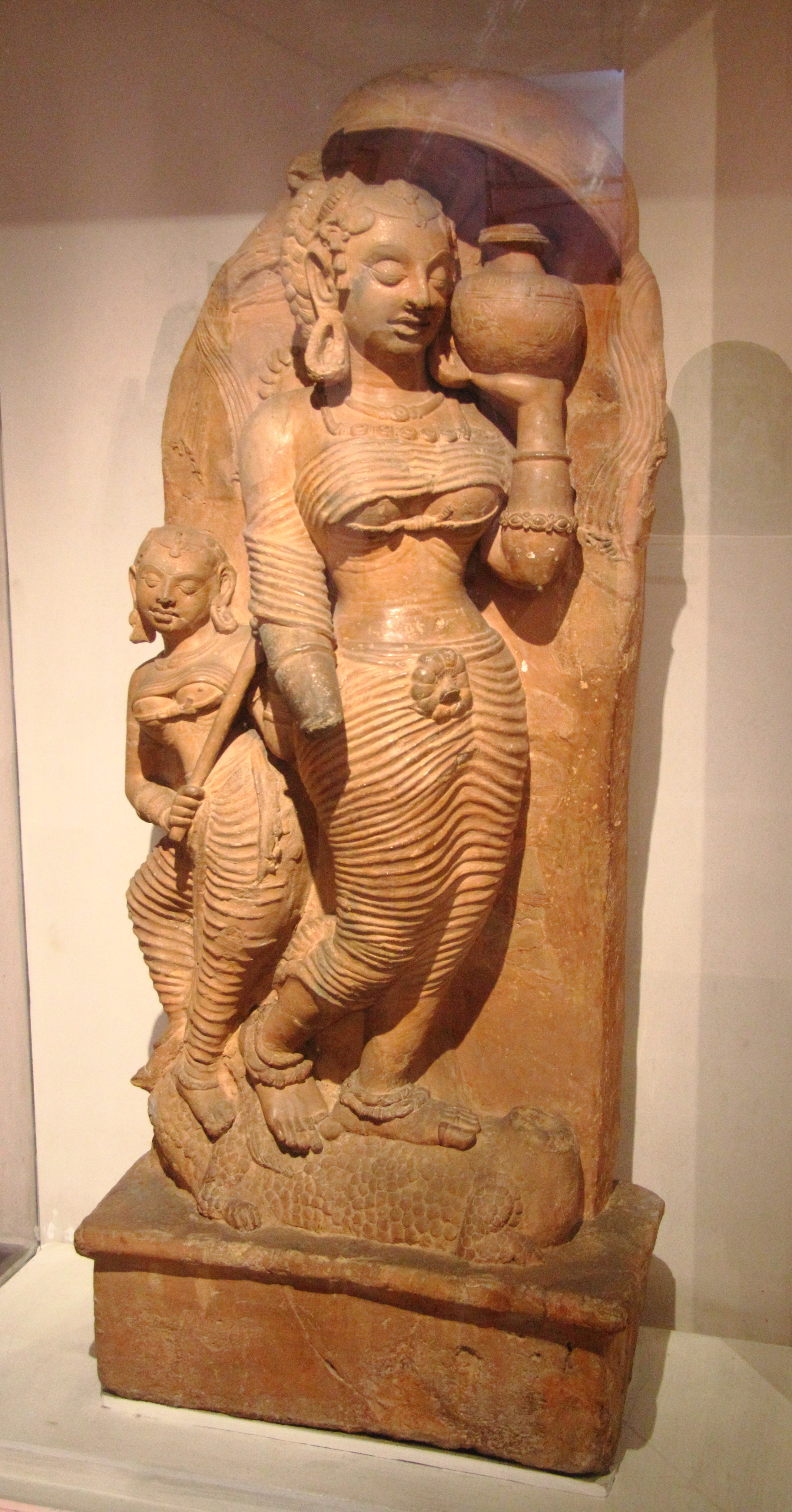 India: National Museum, New Delhi, terracotta statue of river goddess Ganga, from Ahichchhatra (Uttar Pradesh , 5th century A.D.